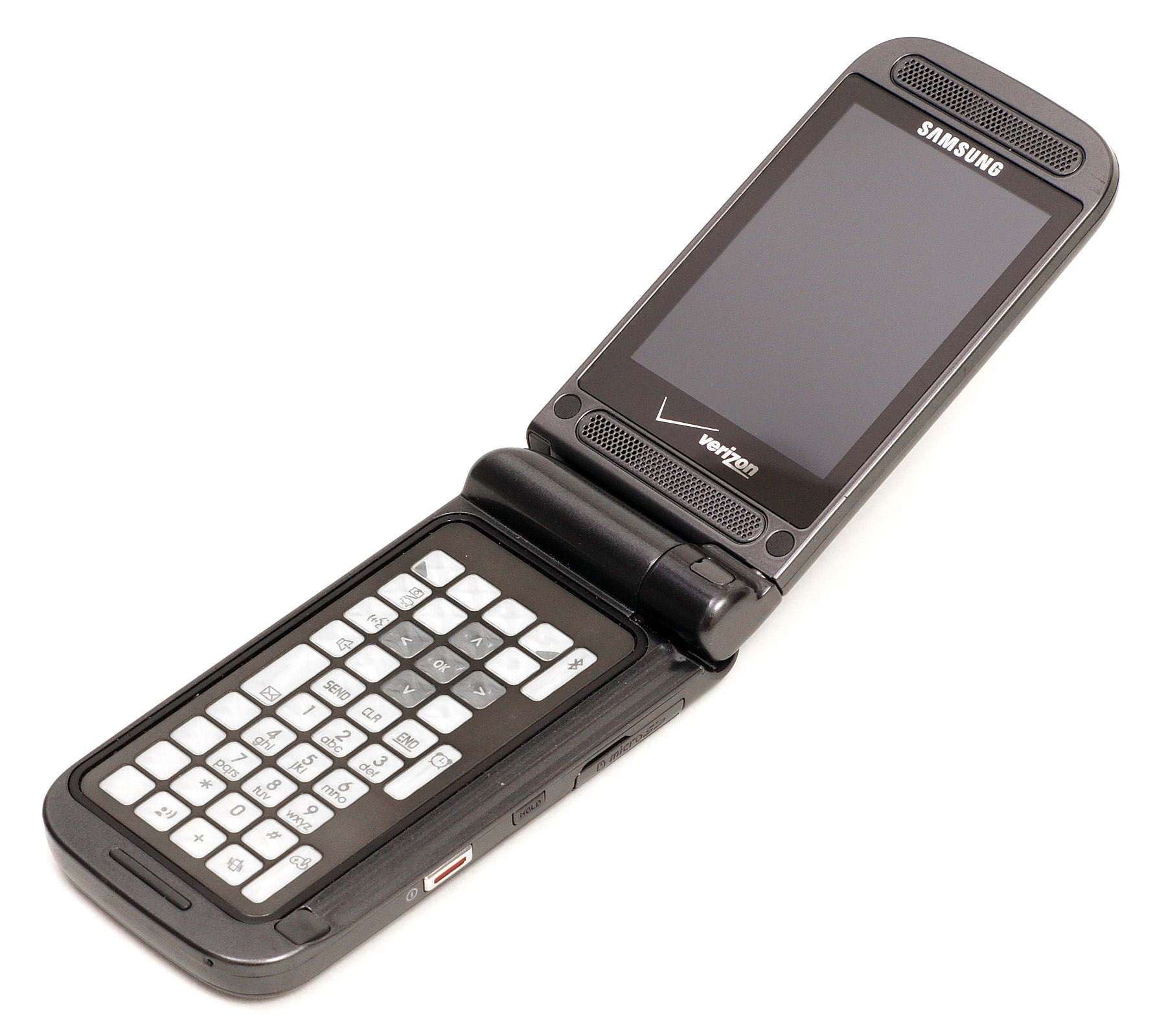 A Samsung Alias 2 cell phone open.